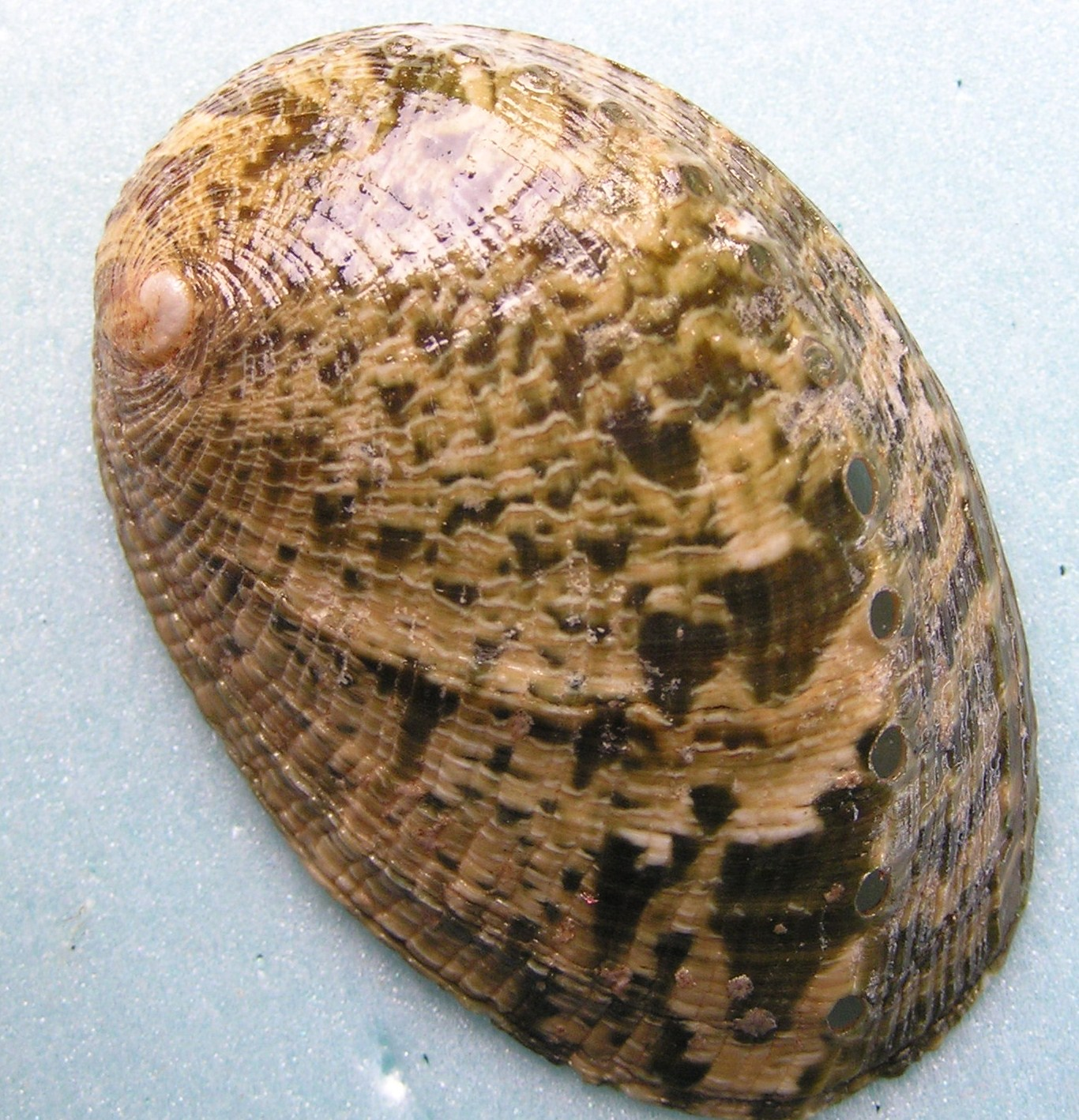 Photo of the shell of Haliotis virginea. Locality: Philippines.